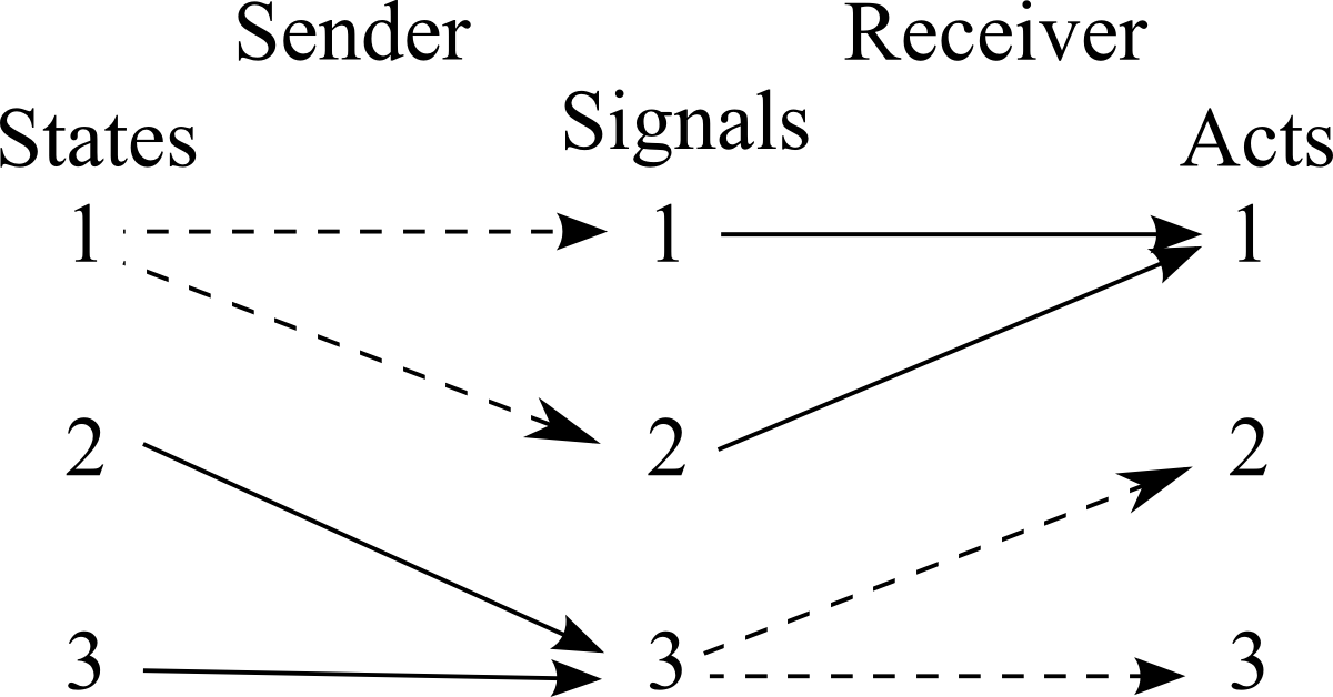 A partial pooling equilibrium in the Lewis Signaling Game -- a game used to analyze language.